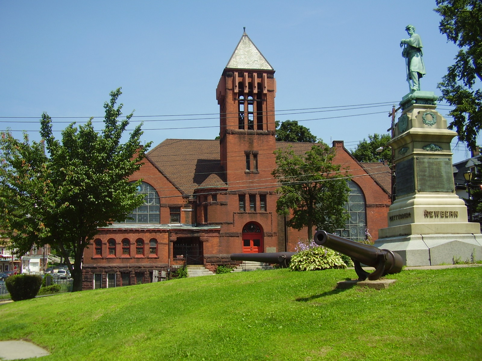 United Methodist Church in Derby, Conn. (Birmingham Green Historic District)